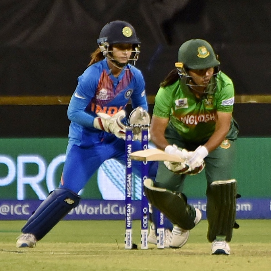 Shamima Sultana batting for Bangladesh against India during their 2020 ICC Women's T20 World Cup match at the WACA Ground in Perth, Australia. The wicket-keeper is Taniya Bhatia.